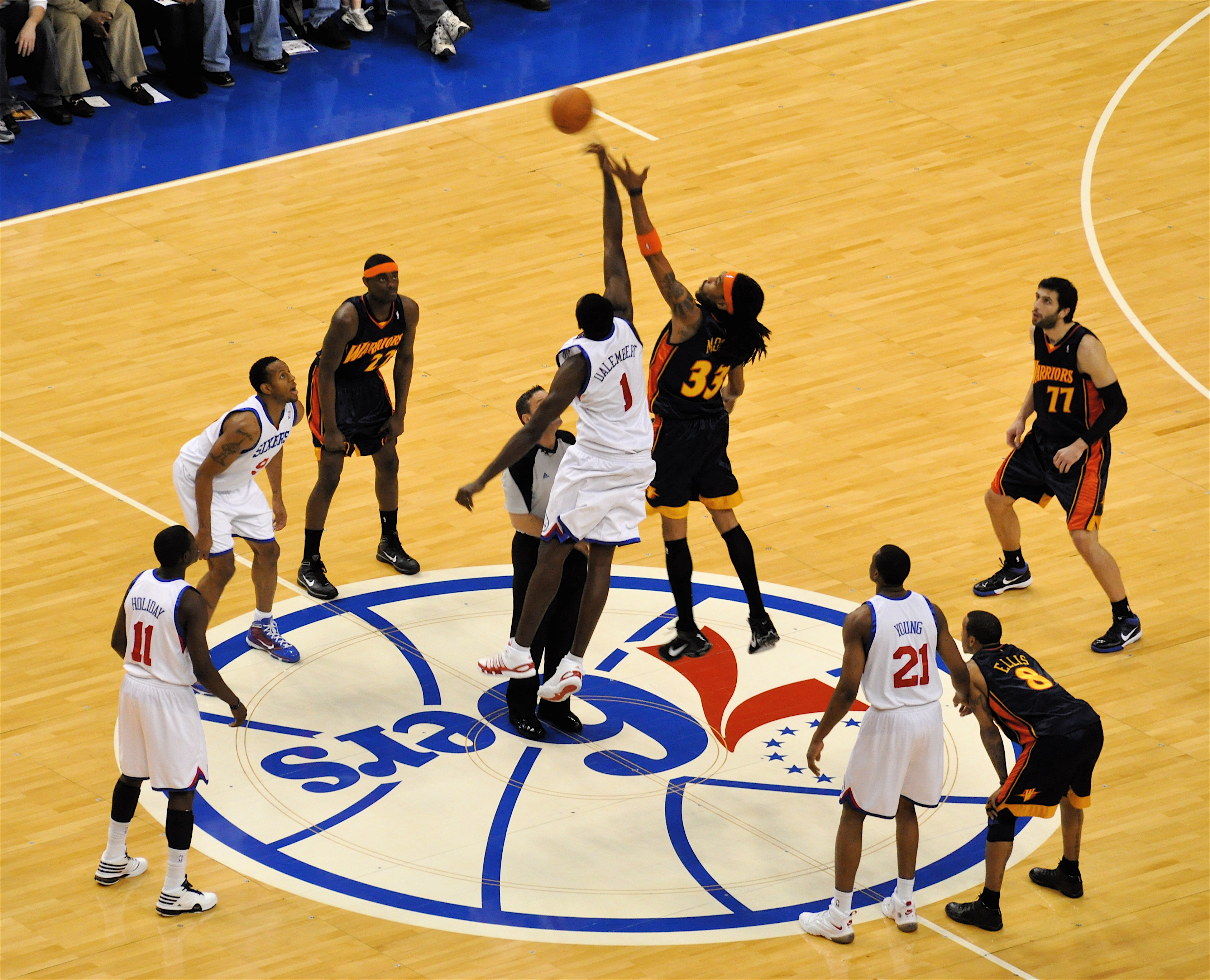 Wachovia Center. In center - Samuel Dalembert (1) and Mikki Moore. Clockwise from right: Vladmir Radmanovic, Monta Ellis, Nick Young, Jrue Hoilday, Andre Iguodala, Anthony Randolph.